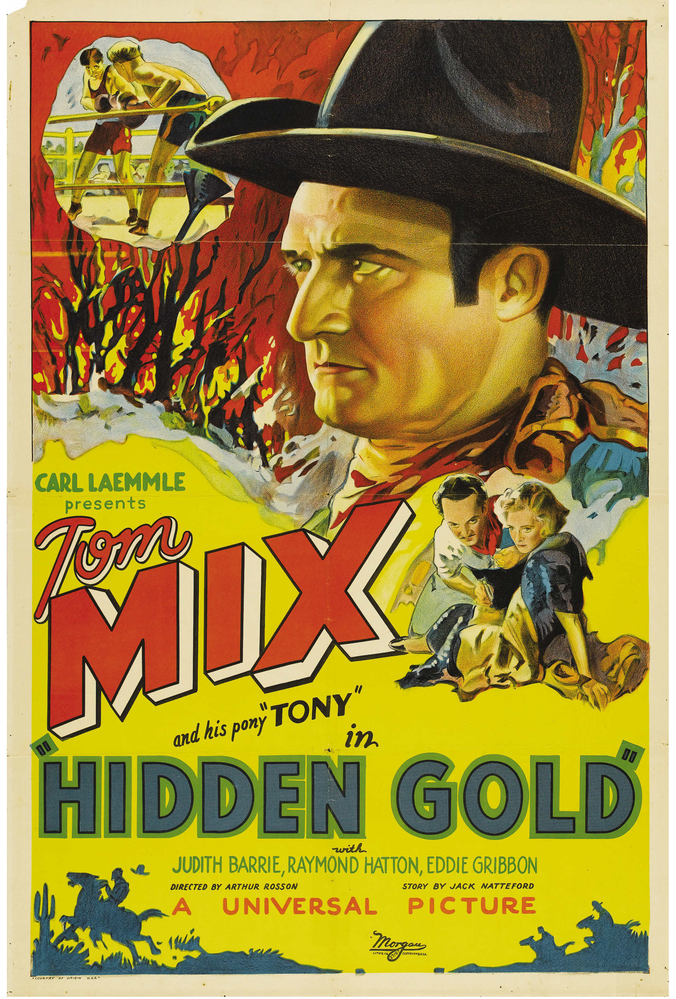 Poster for the 1932 film Hidden Gold. There are no copyright marks on the poster. At bottom left is Country of Origin USA. At bottom right is The Morgan Litho Co., Cleveland USA-they printed the poster-and 37197.